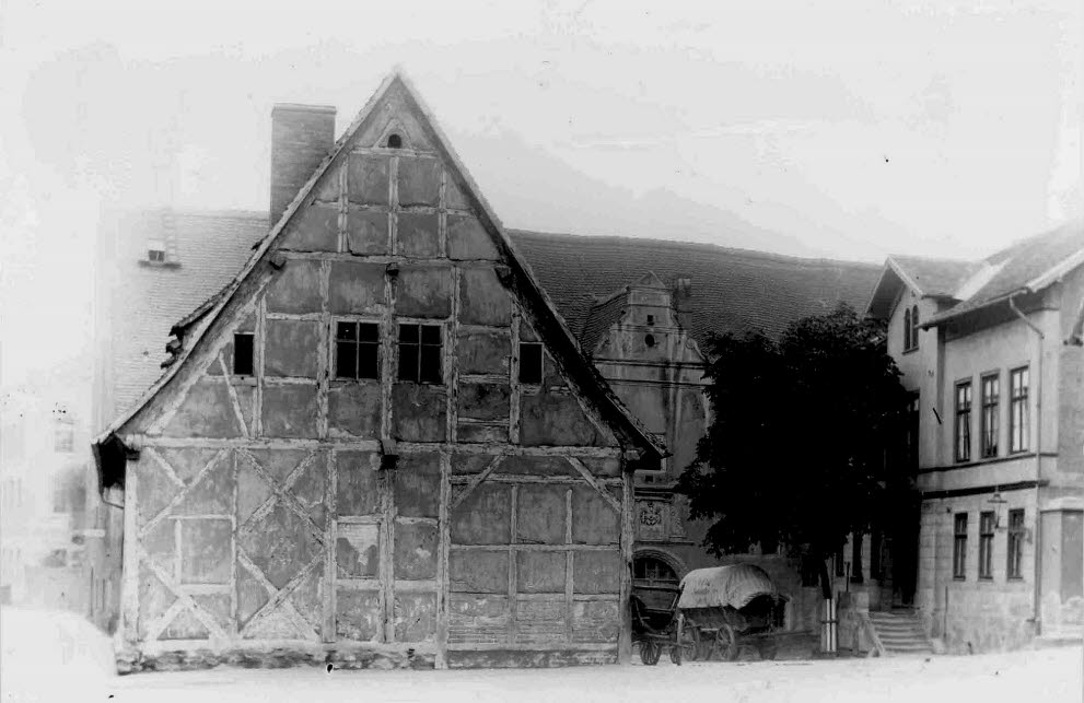 View in the courtyard of the Neumühle (new mill), Halle (Saale), around 1900